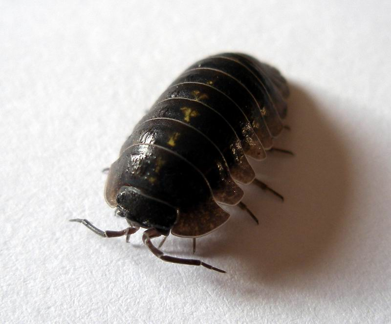 A woodlouse, likely a pillbug (Armadillidium vulgare) but it refused to demonstrate the rolling up.